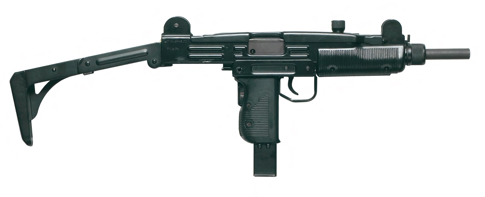 UZI Submachine Gun Primary function: Anti-personnel. Length: 25.6 in. Weight: 7.7 lbs. Caliber: 9 mm NATO. Maximum effective range: 206 meters. Cyclic rate of fire: 600 rounds per minute.